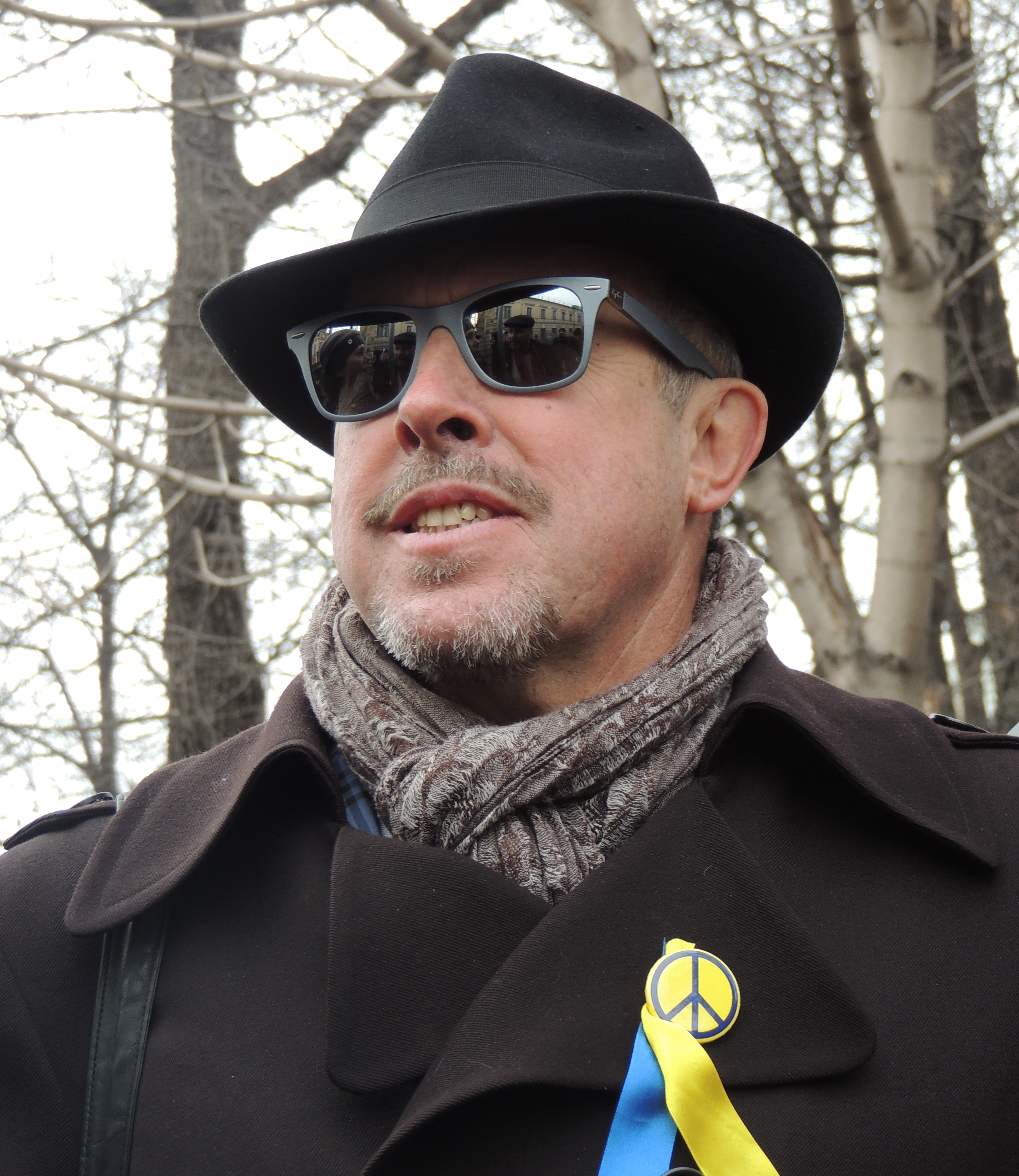 Andrey Makarevich at March of Peace (2014-03-15, Moscow)